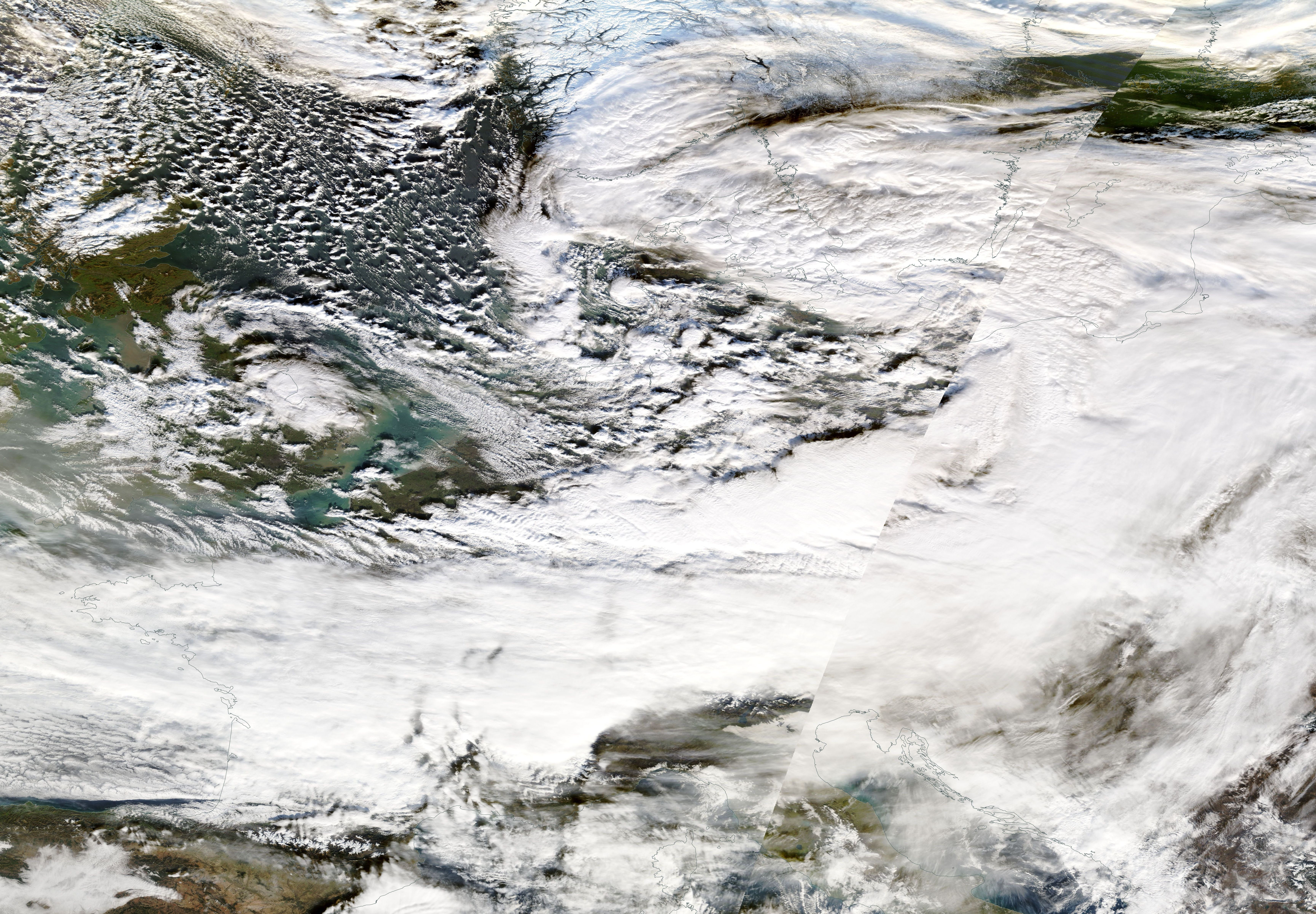 Cyclone Andrea located over northern Europe on 5 January 2012.